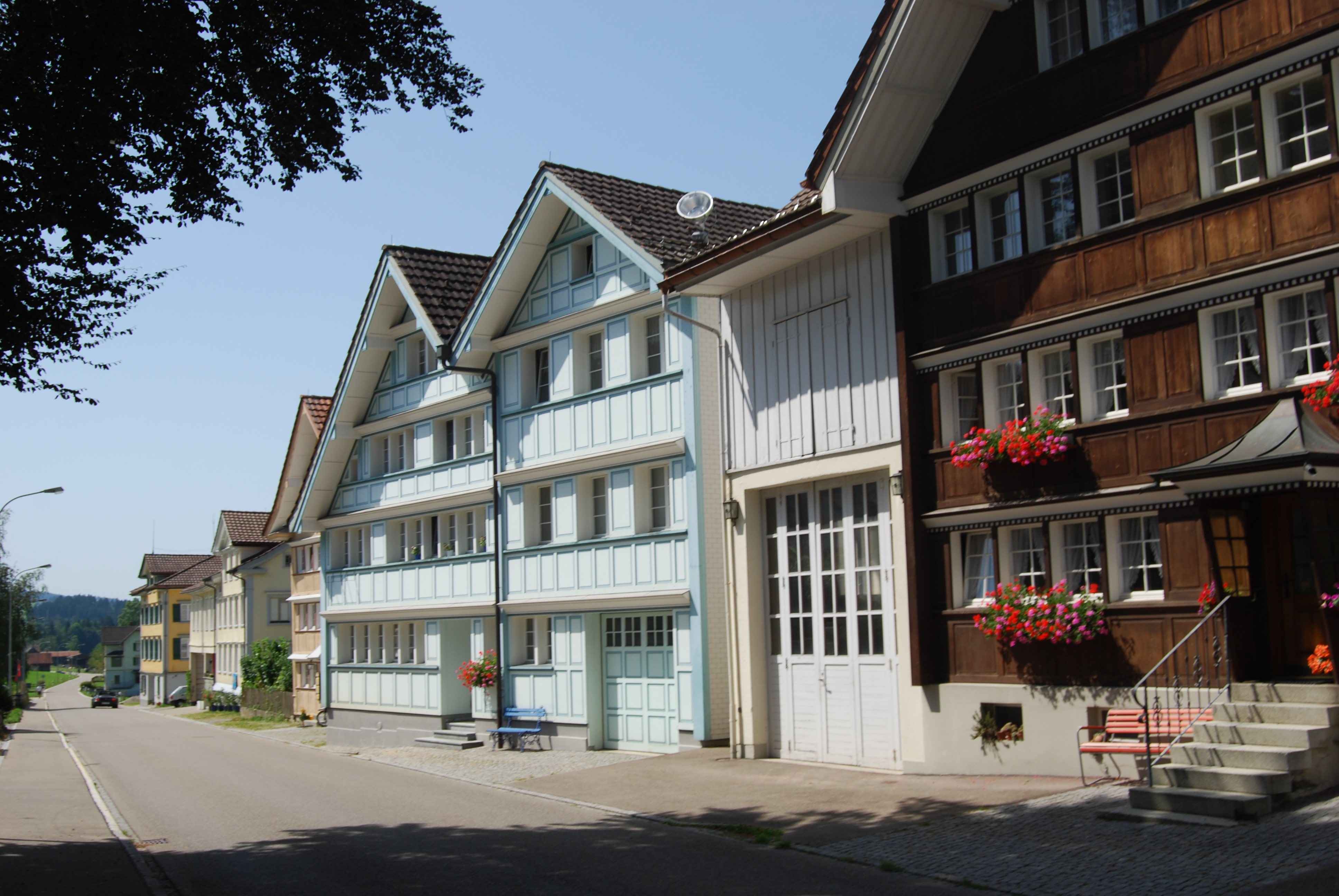 Schönengrund, canton of Appenzell Ausserrhoden, Switzerland